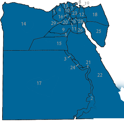 Old governorates of Egypt - numbered map